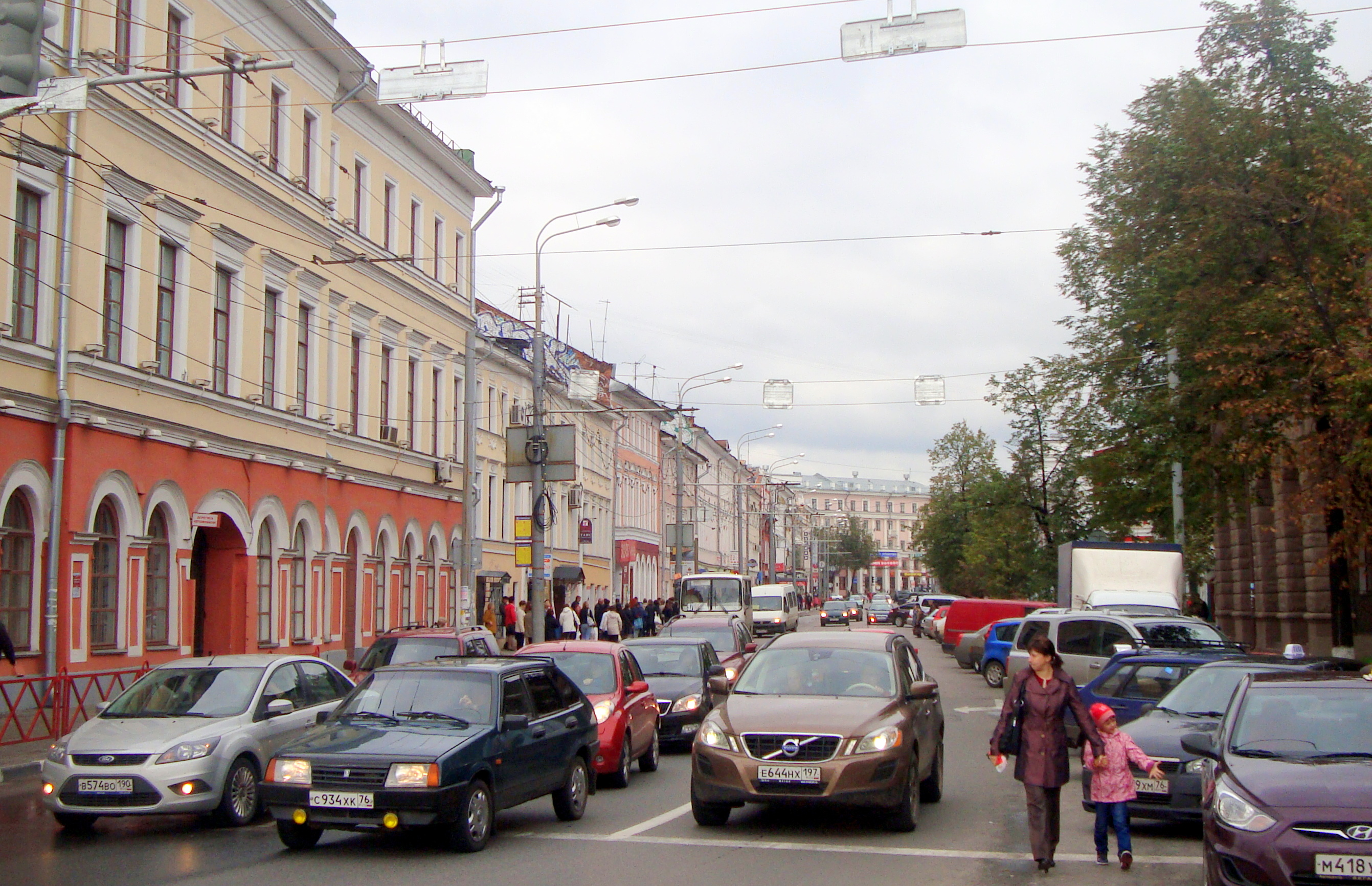 Komsomolskaya Street, Yaroslavl, Russia